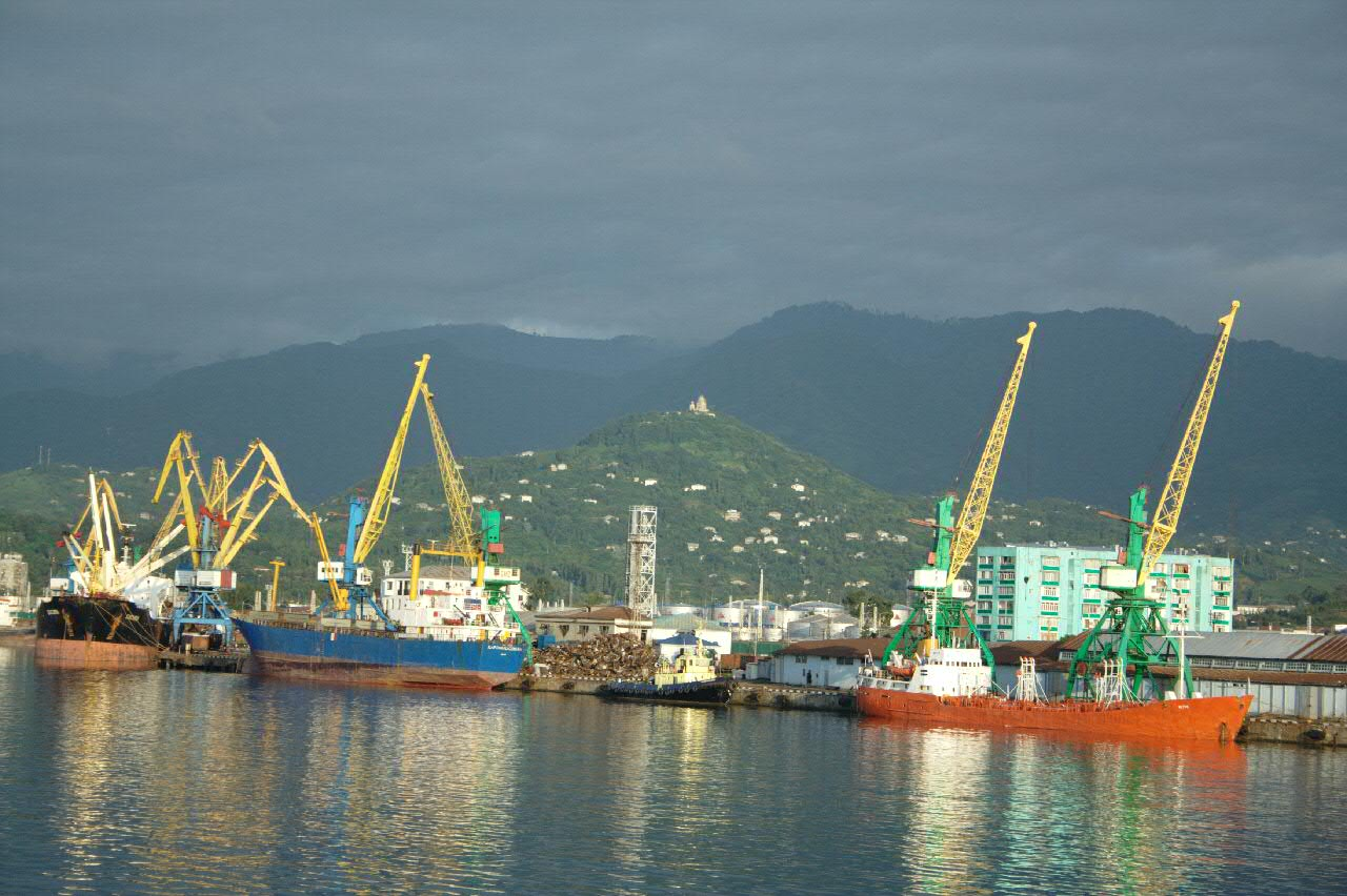 Batumi Sea Port